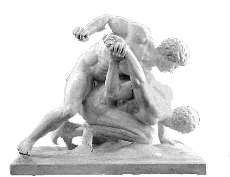 "The Wrestlers," statue from Uffizi Gallery, Florence, Italy. Marble (?) reproduction of 3rd century bronze statue.